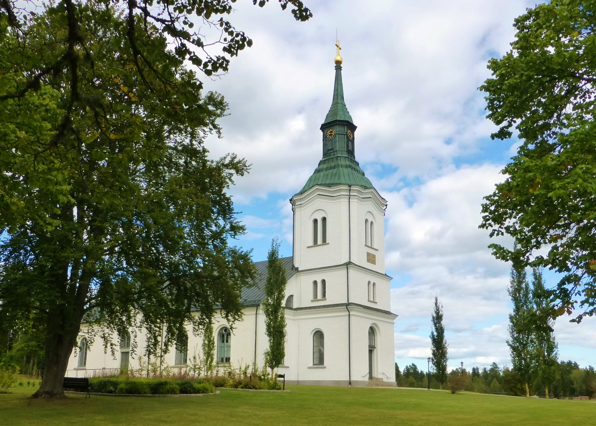 Tolgs church. Exterior view from west